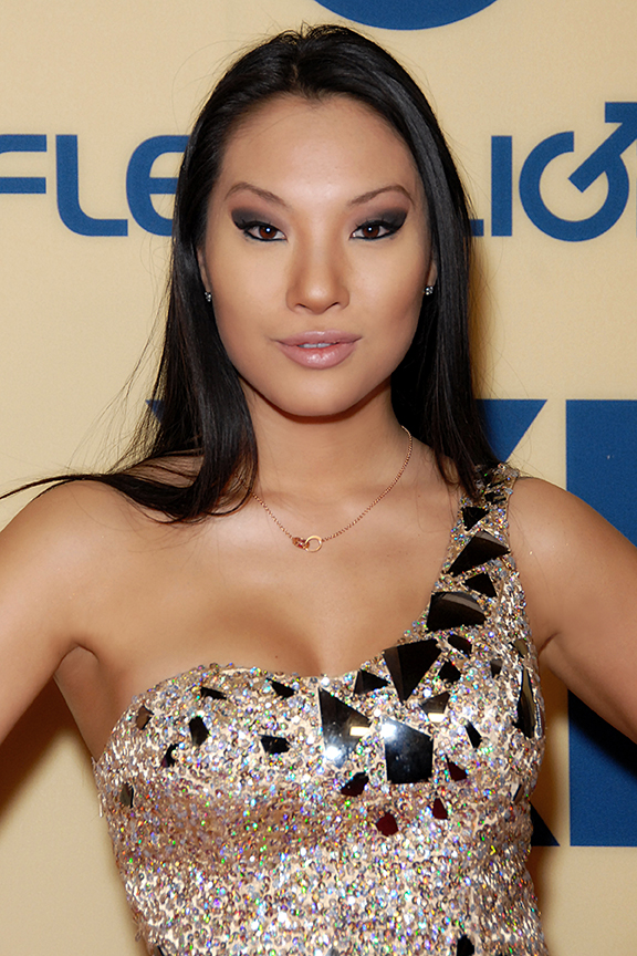 Asa Akira at the XBIZ Awards Show on January 11, 2013 - Photo by Glenn Fancis of